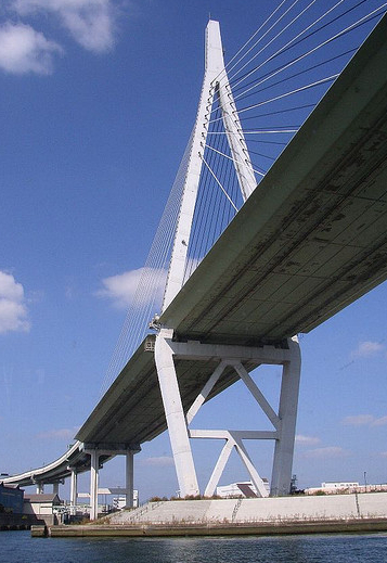 The Tempozan Bridge in Osaka, Japan